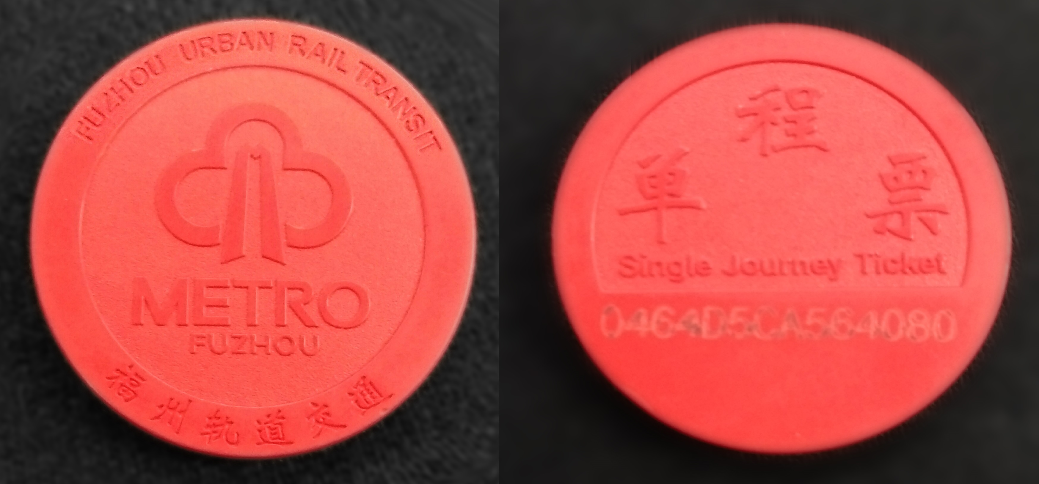 one-way ticket of fuzhou metro.